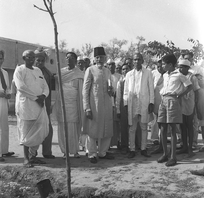 Visit of the Hon'ble Maulana Abdul Kalam Azad to the Vignam kala Bhavan, Baurala on 4.4. 48.